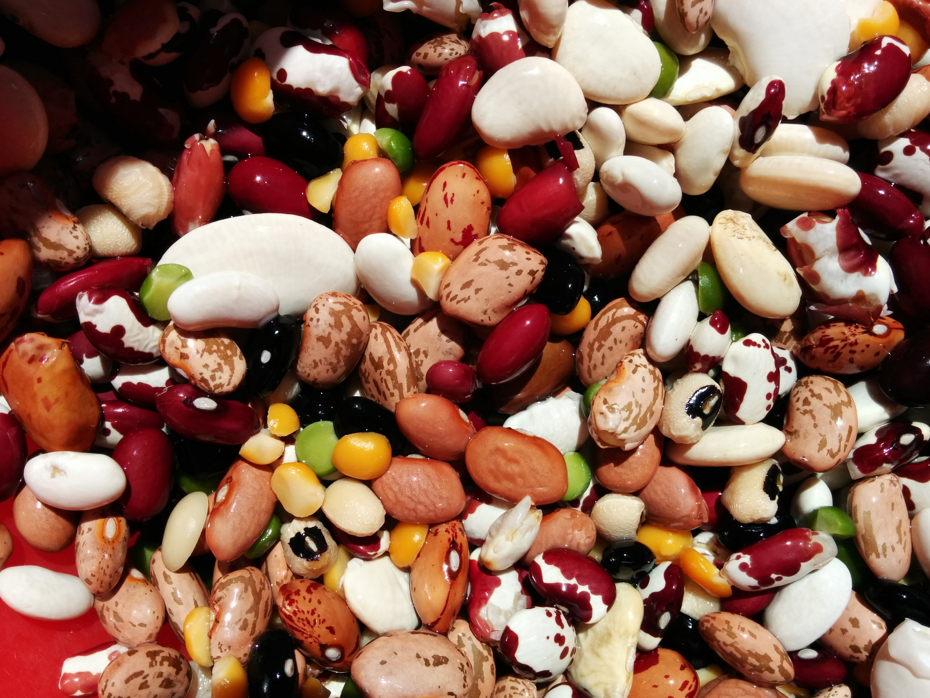 Mix of Anasazi beans, pinto beans, black beans, black eyed peas, great northern, baby Lima, green split pea, yellow split pea, small reds, bolita beans, and cranberry.